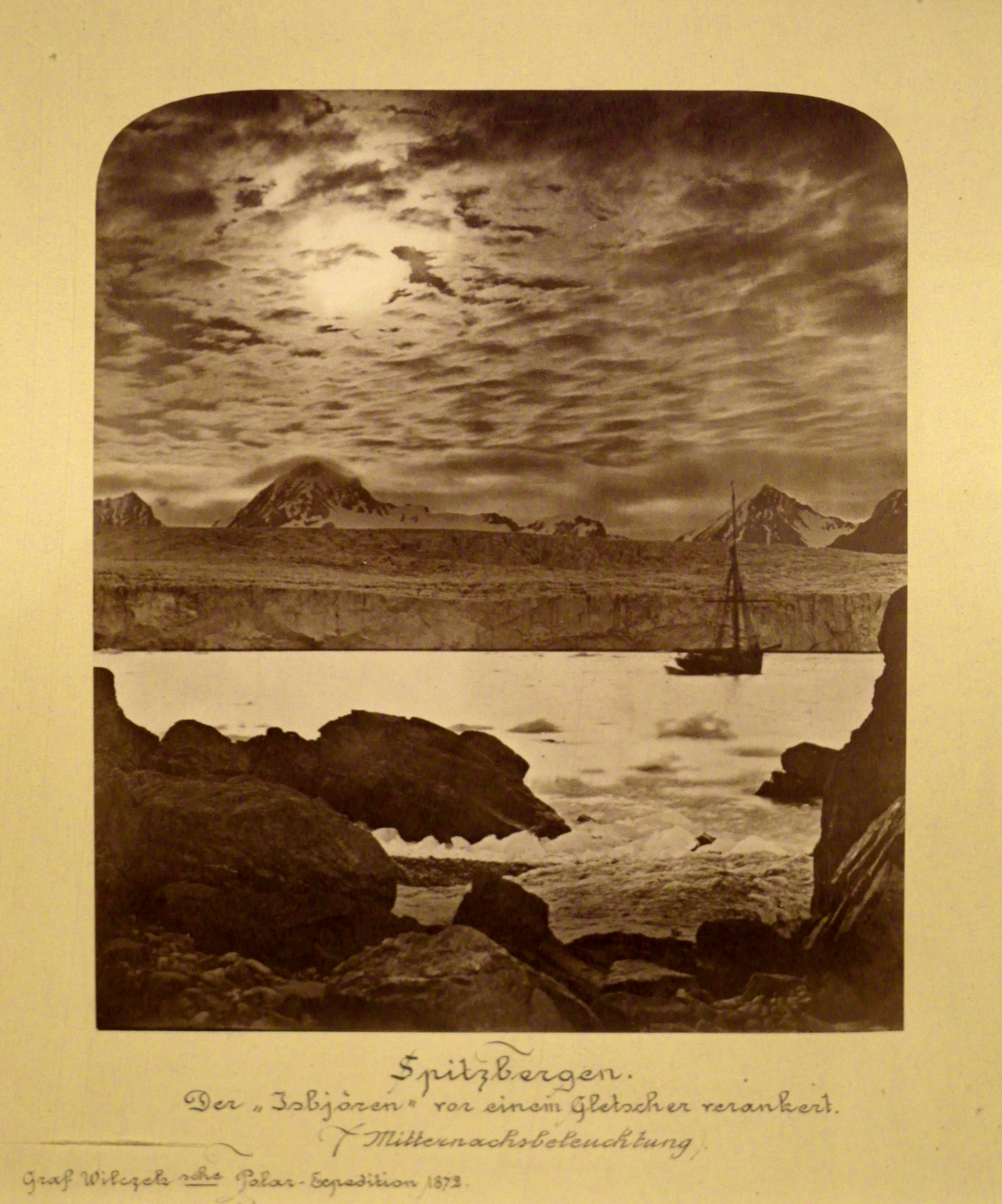 Sailing boat 'Isbjörn' anchored in front of some glacier in Spitsbergen. This photograph was taken by Austrian photographer Wilhelm J. Burger when he accompagnied the Wilczek expedition which was needed to prepare the Payer-Weyprecht expedition. It is one of the earliest documents from that region, and it is held by (and, to some extent, "was stolen from" ;) Vienna's Albertina museum.